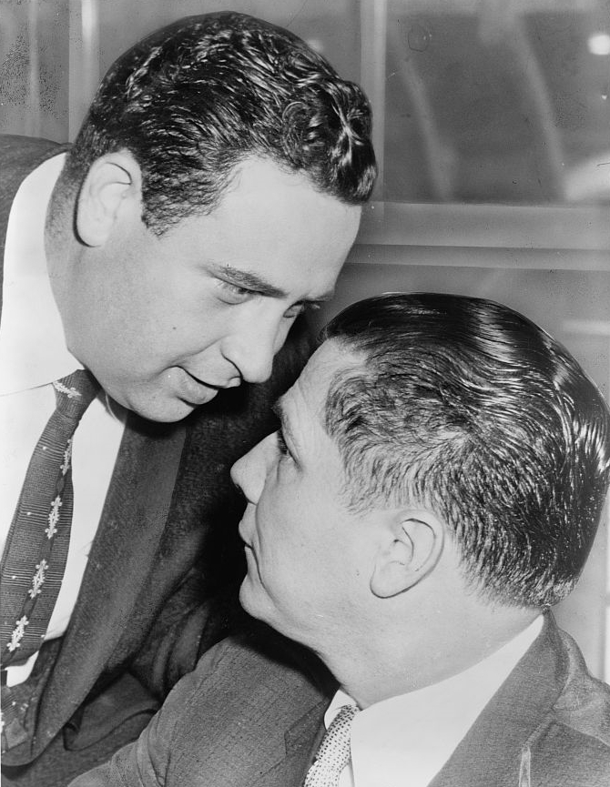 Bernard Spindel (d. 1972) whispers in ear of James R. Hoffa (b. 1913) after court session in which they pleaded innocent to illegal wiretap charges.